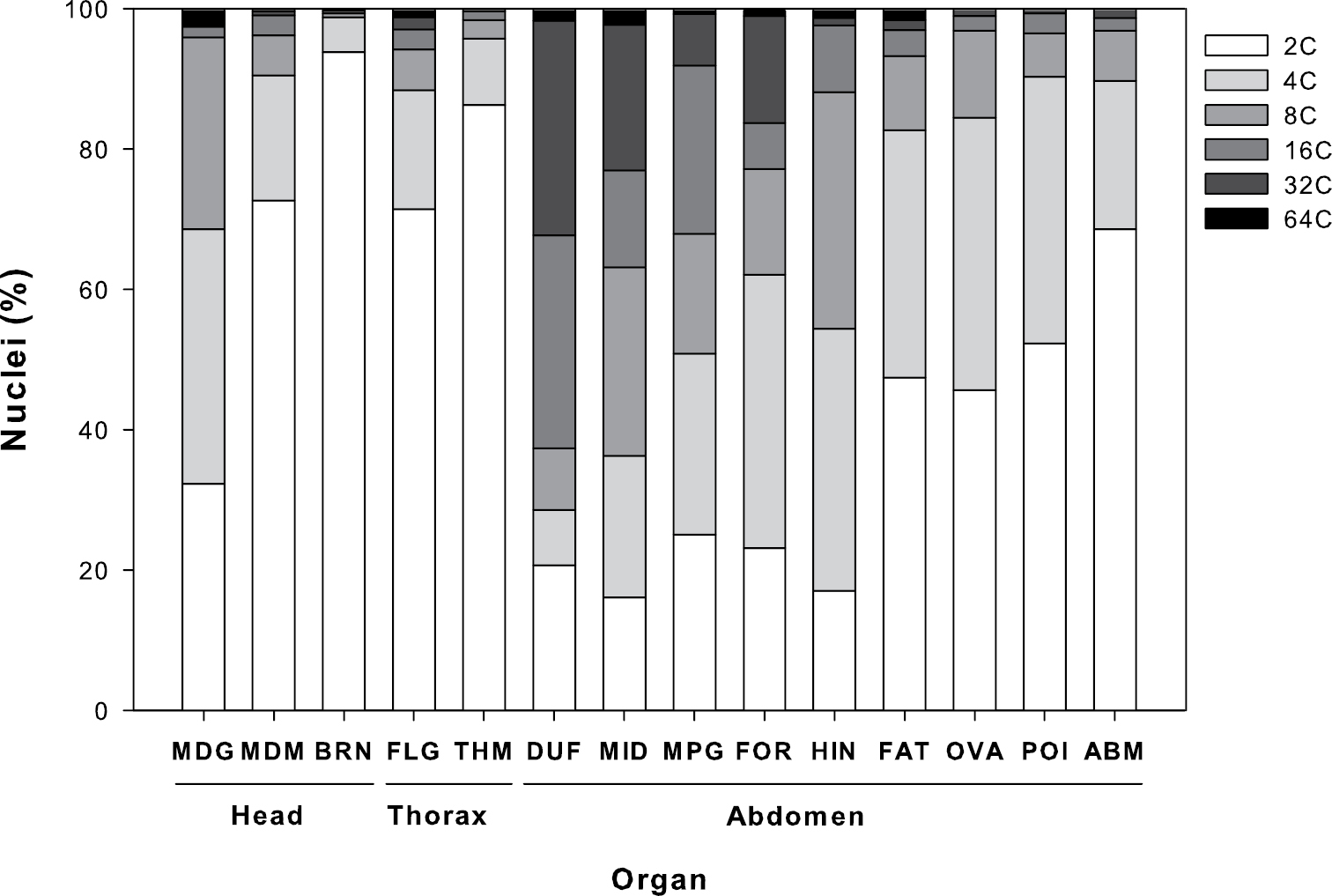 Distribution of ploidy among organs. Percentage of nuclei at each of the ploidy levels observed (2C–64C) within each organ analyzed. Organs are presented by body segment in descending order of cycle value.